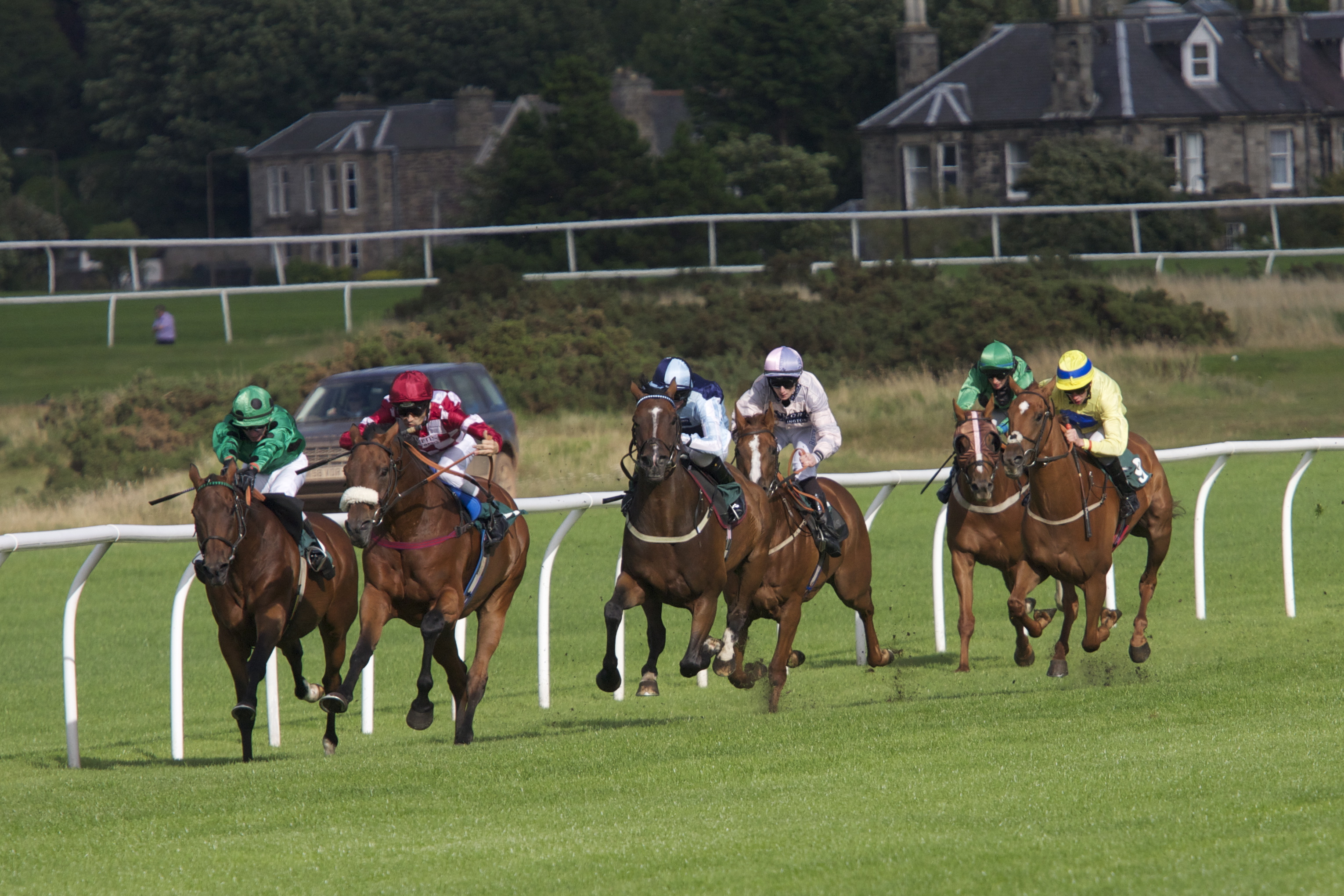 Scottish Racing Handicap 2010, Oddsmaker and Balwearie in the front, Golden Future in third and Miss Ferney in fourth place, Banquet and Acol in the back (Results)